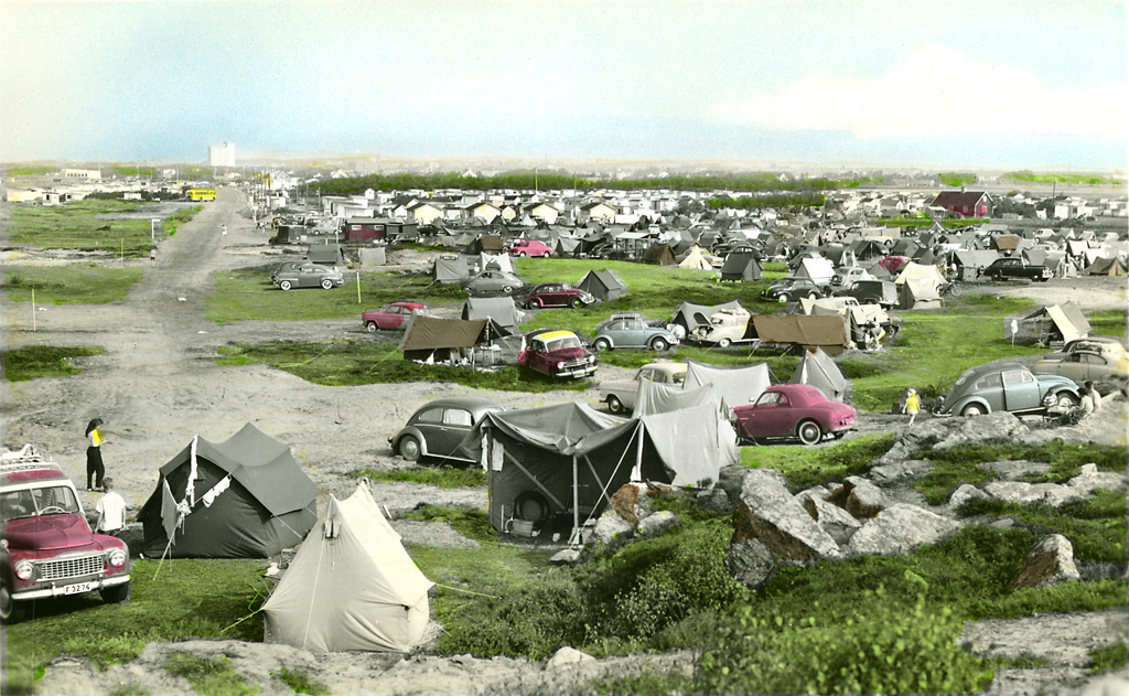 The camping ground at Skrea beach in Falkenberg. Campingplatsen vid Skrea strand i Falkenberg. Parish (socken): Falkenberg Province (landskap): Halland Municipality (kommun): Falkenberg County (län): Halland Photograph by: Unknown. Almquist & Cöster Date: 1950-1959 Format: Original postcard, tinted Persistent URL: Read more about the photo database (in english)